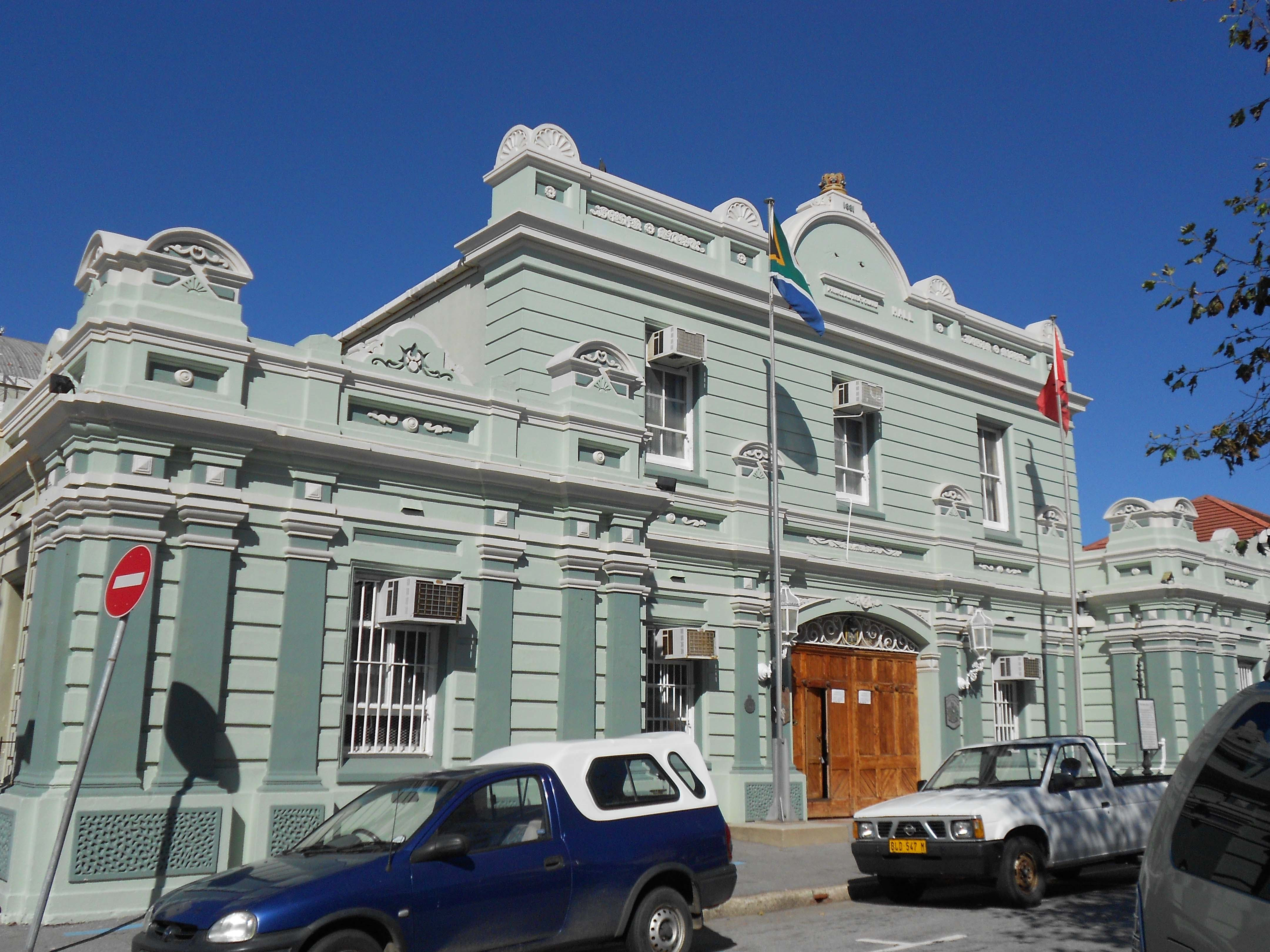 Prince Alfred's Guard Drill Hall, Prospect Hill, Port Elizabeth This media shows a South African Protected Site with SAHRA file reference 9/2/073/0046.